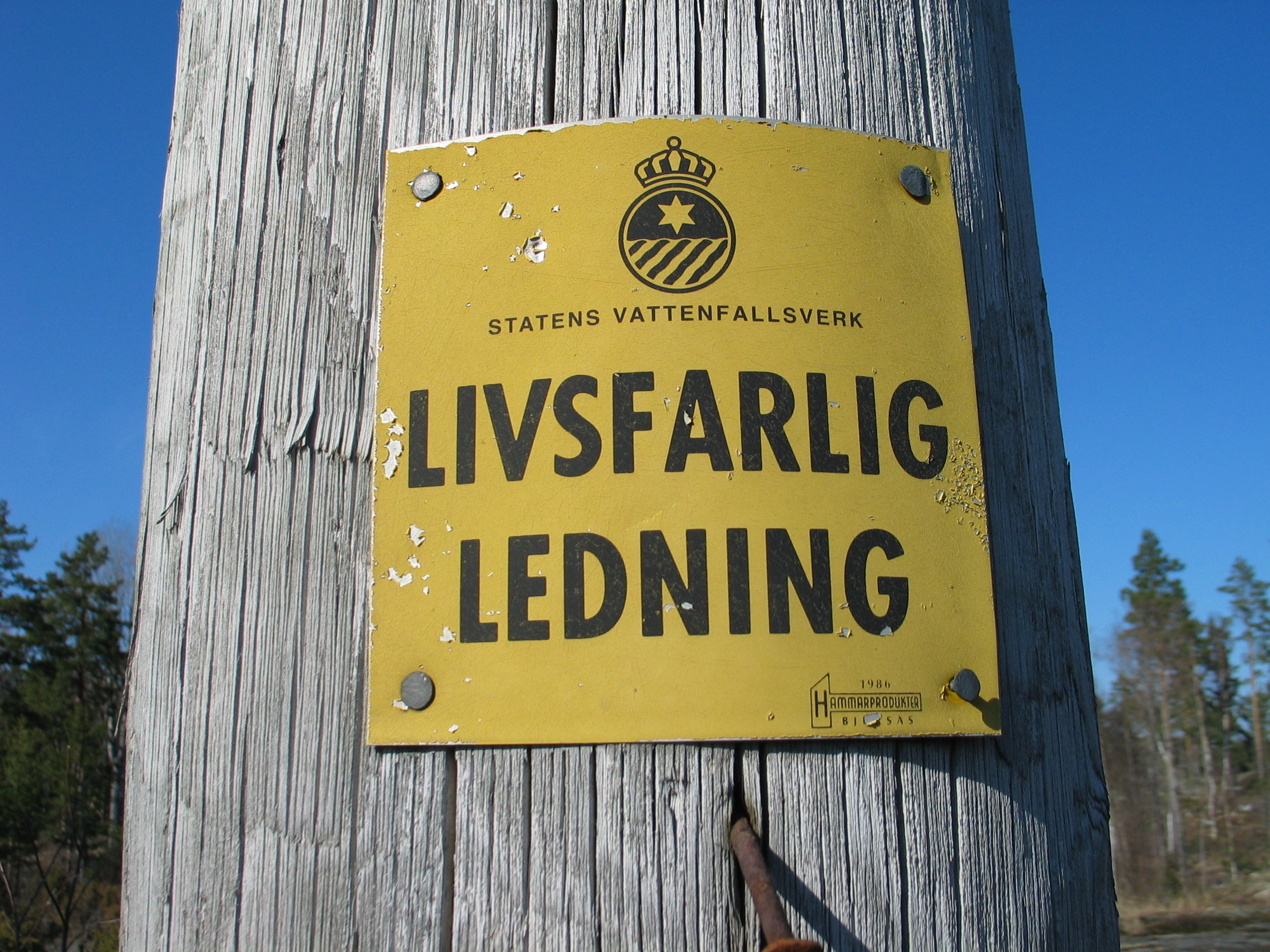 Swedish warning label on power line, photo taken in Sweden